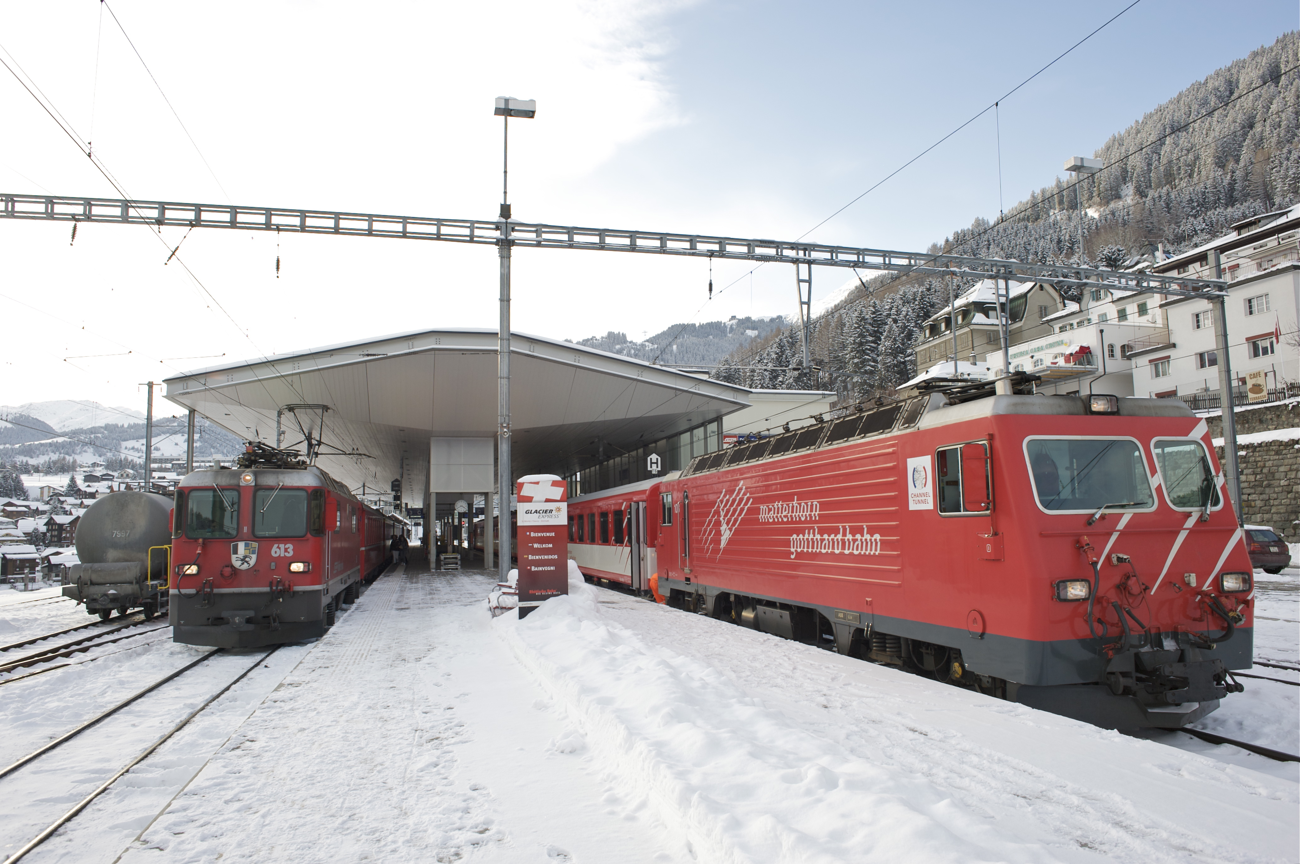 Ge4/4 II no. 623 of the Rhätische Bahn sits next to the Matterhorn Gotthard Bahn's HGe4/4 number 108, with "Channel Tunnel" labelling.